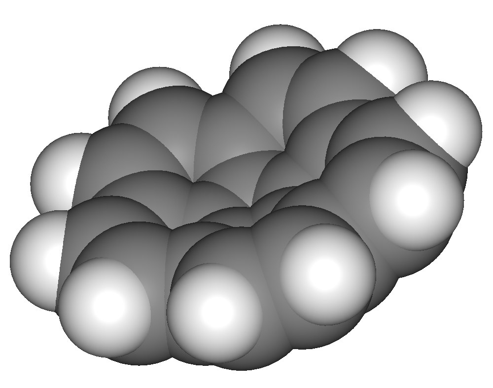 chemical structure of corannulene